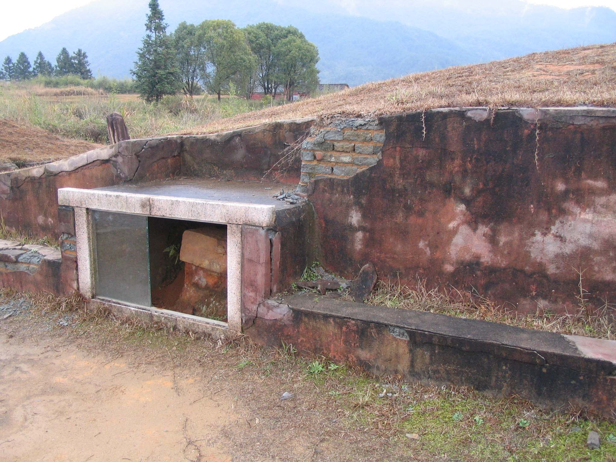 City wall of the Han Dynasty Minyue State's Imperial City ��Խ��ǳ�ǽ